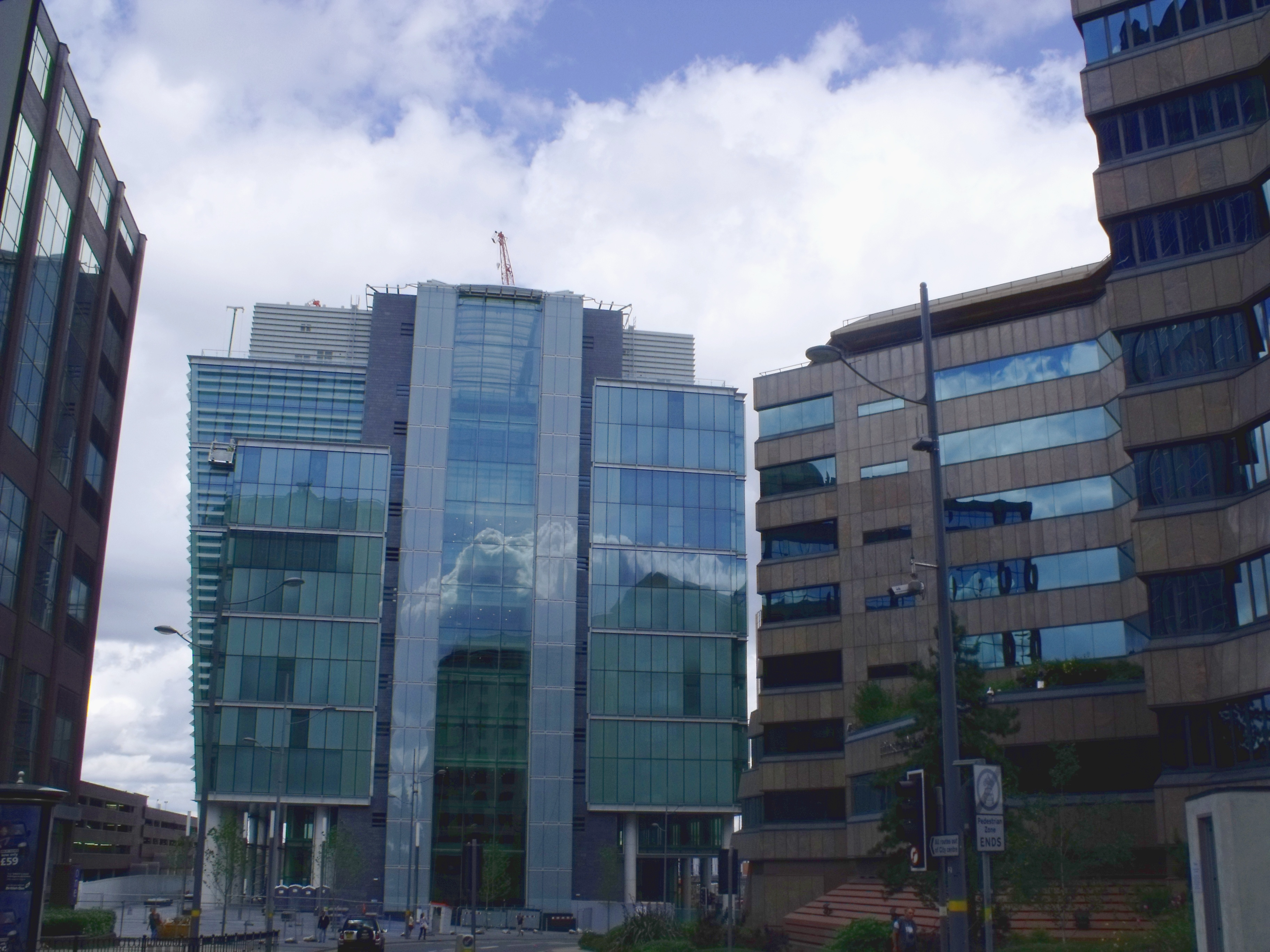 Snow Hill Office Block 1